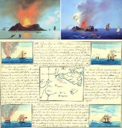 A page from the geological journal of French geologist Constant Prévost, depicting the 1831 eruption of now-underwater Ferdinandea